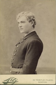 Portrait of Kyrle Bellew by E.F. Ritz, Temple Place, Boston, Mass. USA